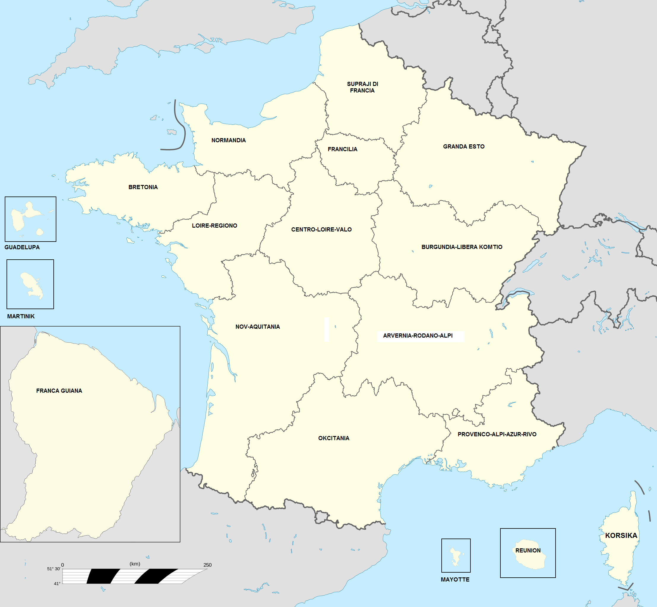 Map of the 18 regions of France, derivative work created from this image, which is in public domain. All names of the regions are in Ido language.